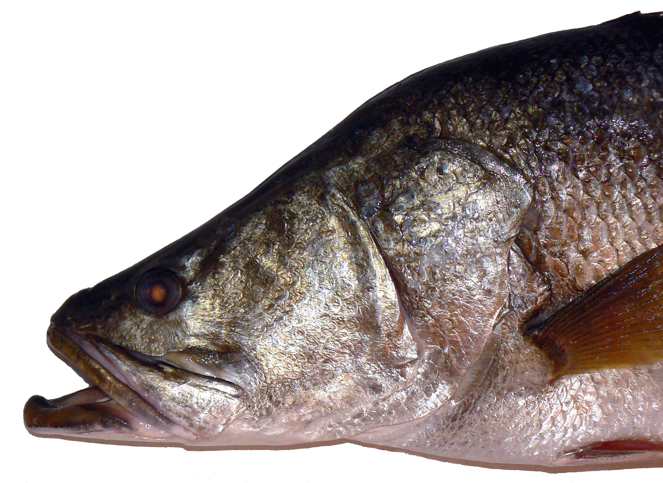 Lates niloticus - Nile perch (also African snook, Capitaine, Victoria perch)